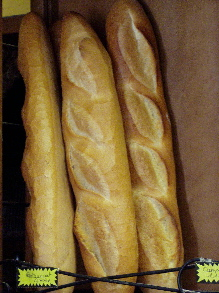 The flute is often mentioned in association with the baguette. As it name implies, it was once narrow like the musical instrument but now in fact is often heavier than the baguette itself(?). (This varies by region in France.)